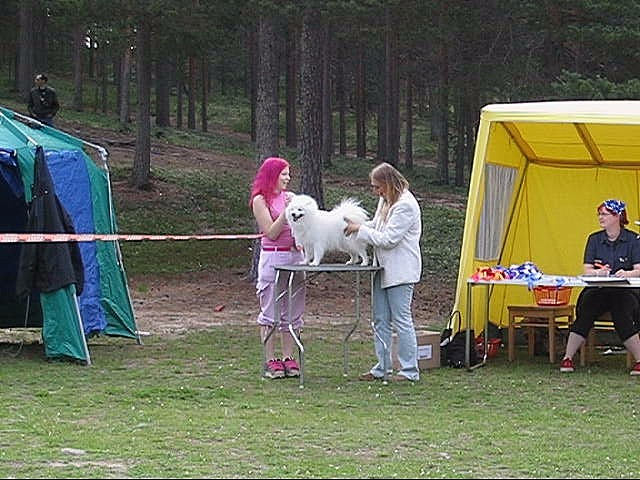 Japanise Spitz in the dog show. Haukipudas, Finland.